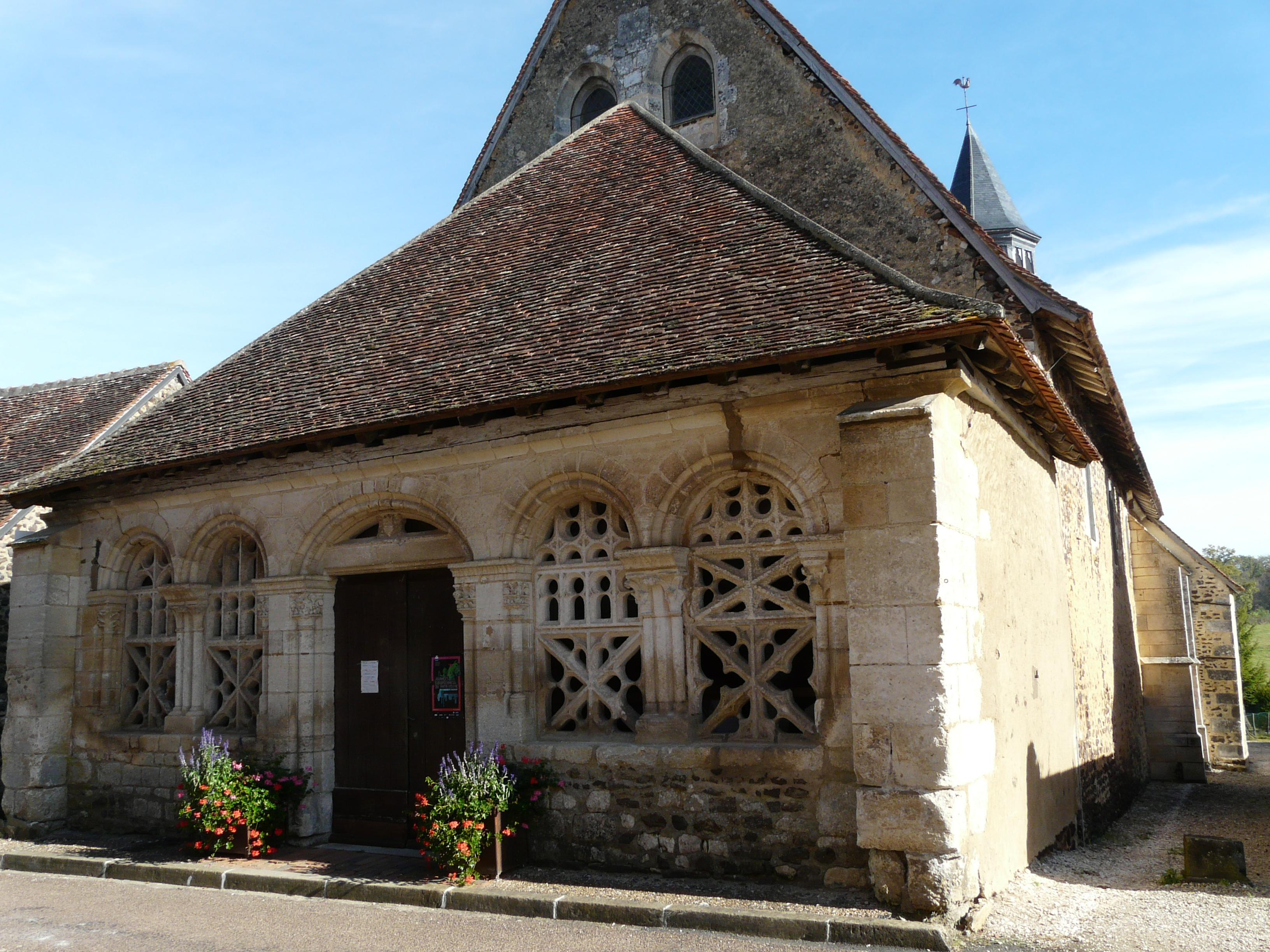 Saint Peter's church at Moutiers-en-Puisaye (France) contains medieval wall paintings